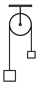 Atwood Machine.